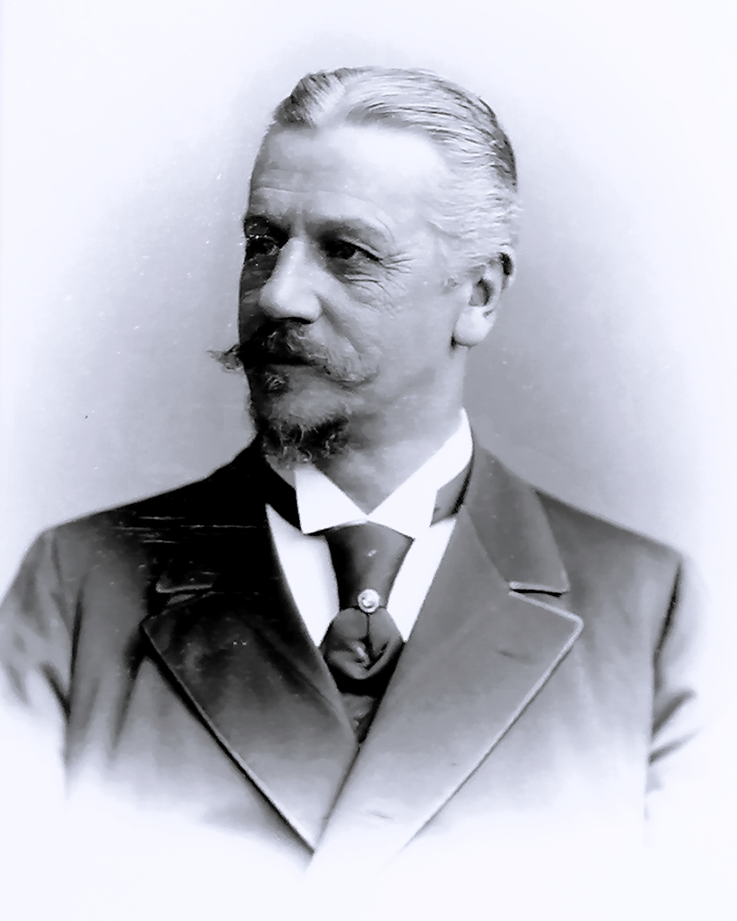 Heinrich Klug (1837-1912), senator and mayor of Lübeck